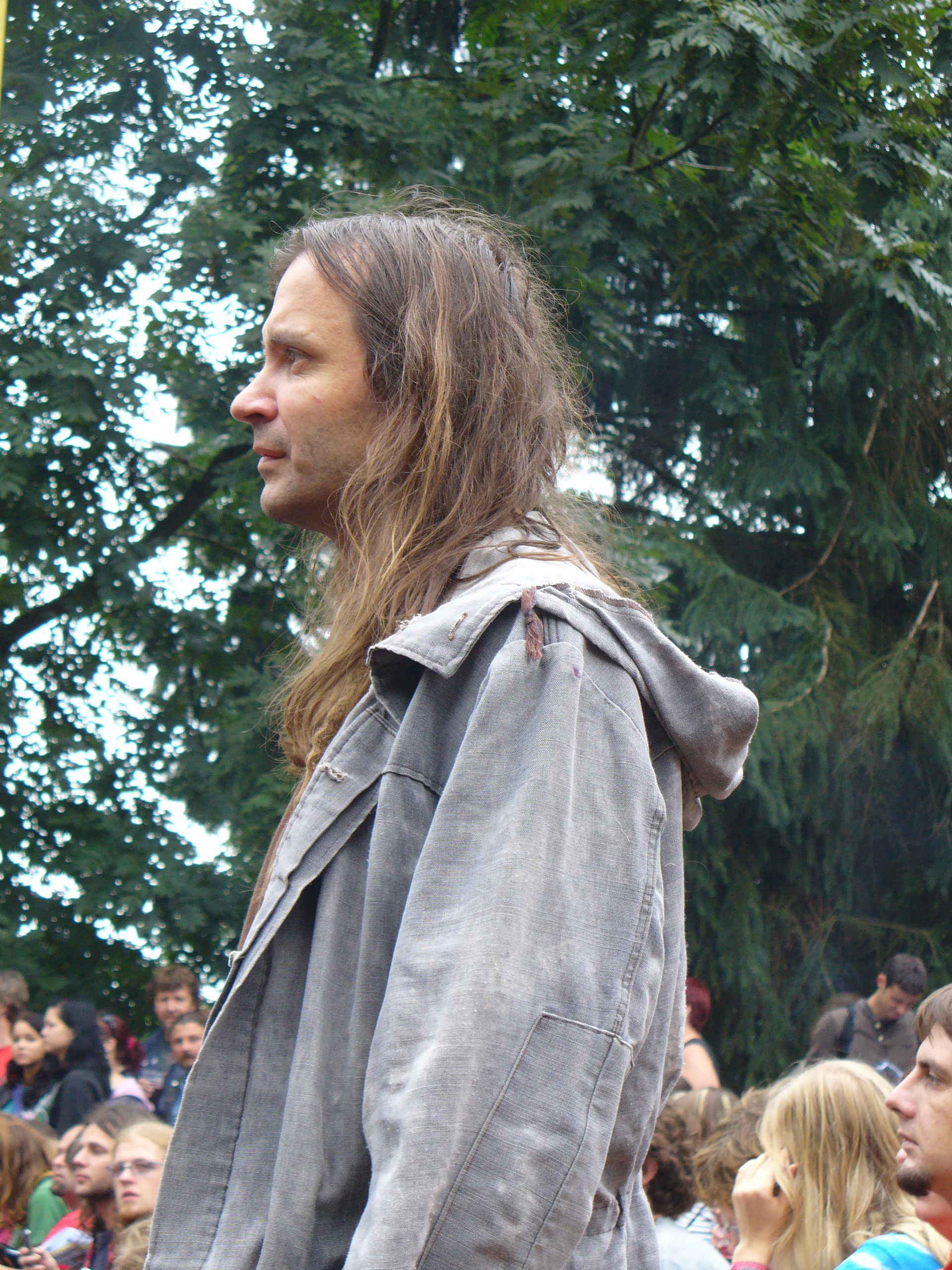 Martin Věchet, Trutnov Open Air Music Festival organizer, watching the stage